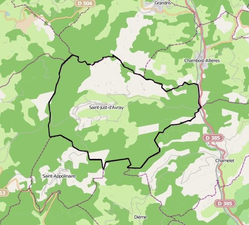 Goolocalisation Saint-Just-d'Avray: top: 46.0398 bottom: 45.9588 left: 4.393 right: 4.5223